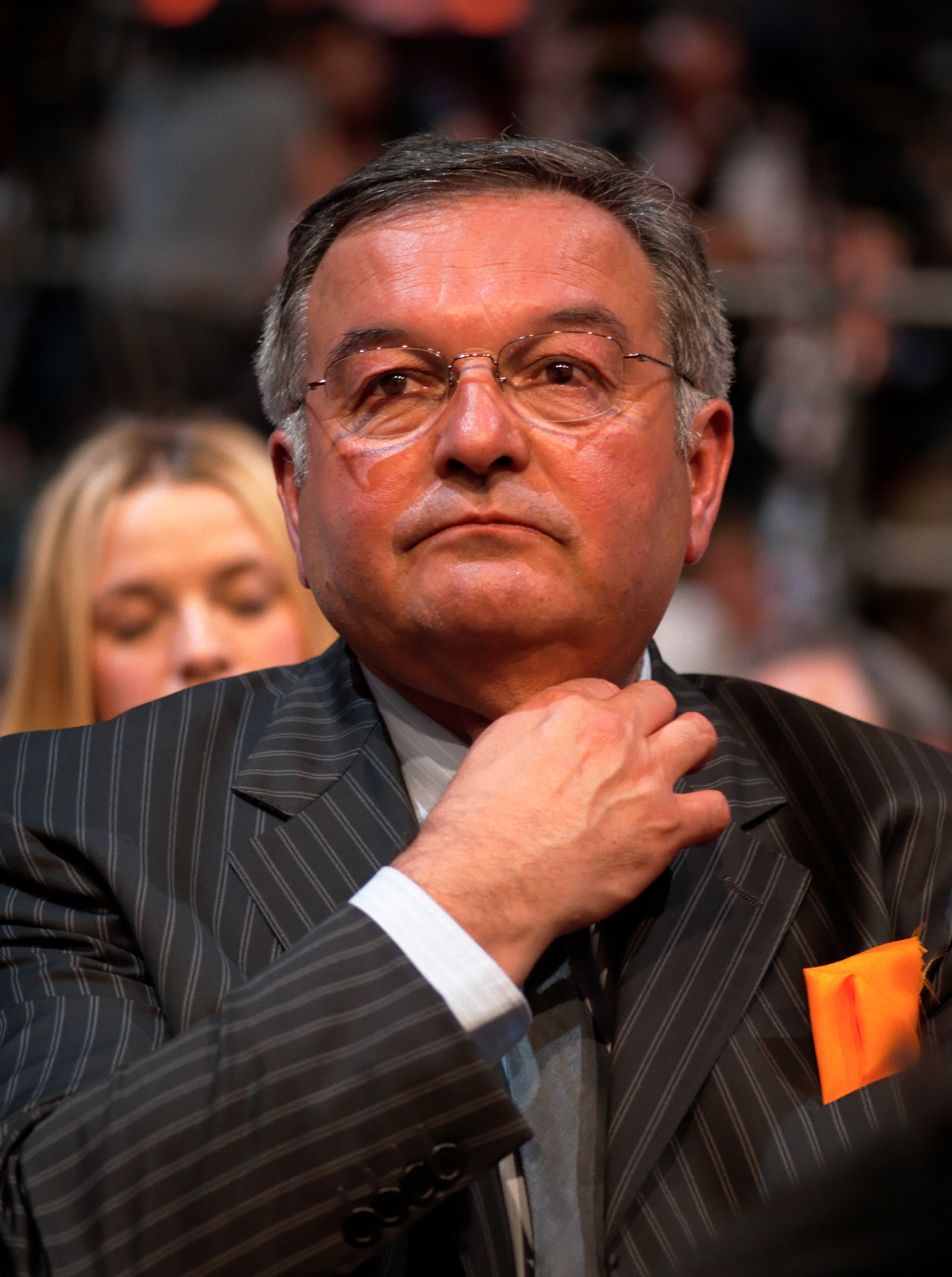 French senator Michel Mercier at a rally for François Bayrou, centrist candidate in the 2007 French presidential election, held on Apr. 18, 2007 at Paris Bercy.